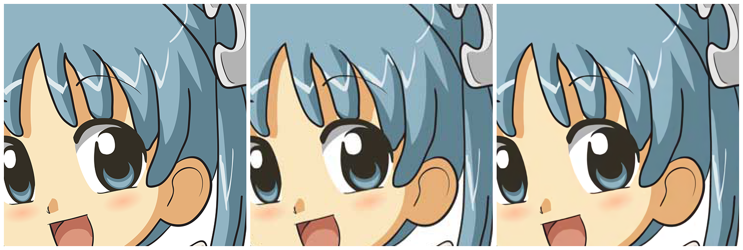 Left: 512×512px, PNG lossless, original source File:Wikipe-tan face.svg Middle: 256×256px, JPG quality 30%, then nearest-neighbor interpolation Right: 512×512px, waifu2x upscaling & noise reduction